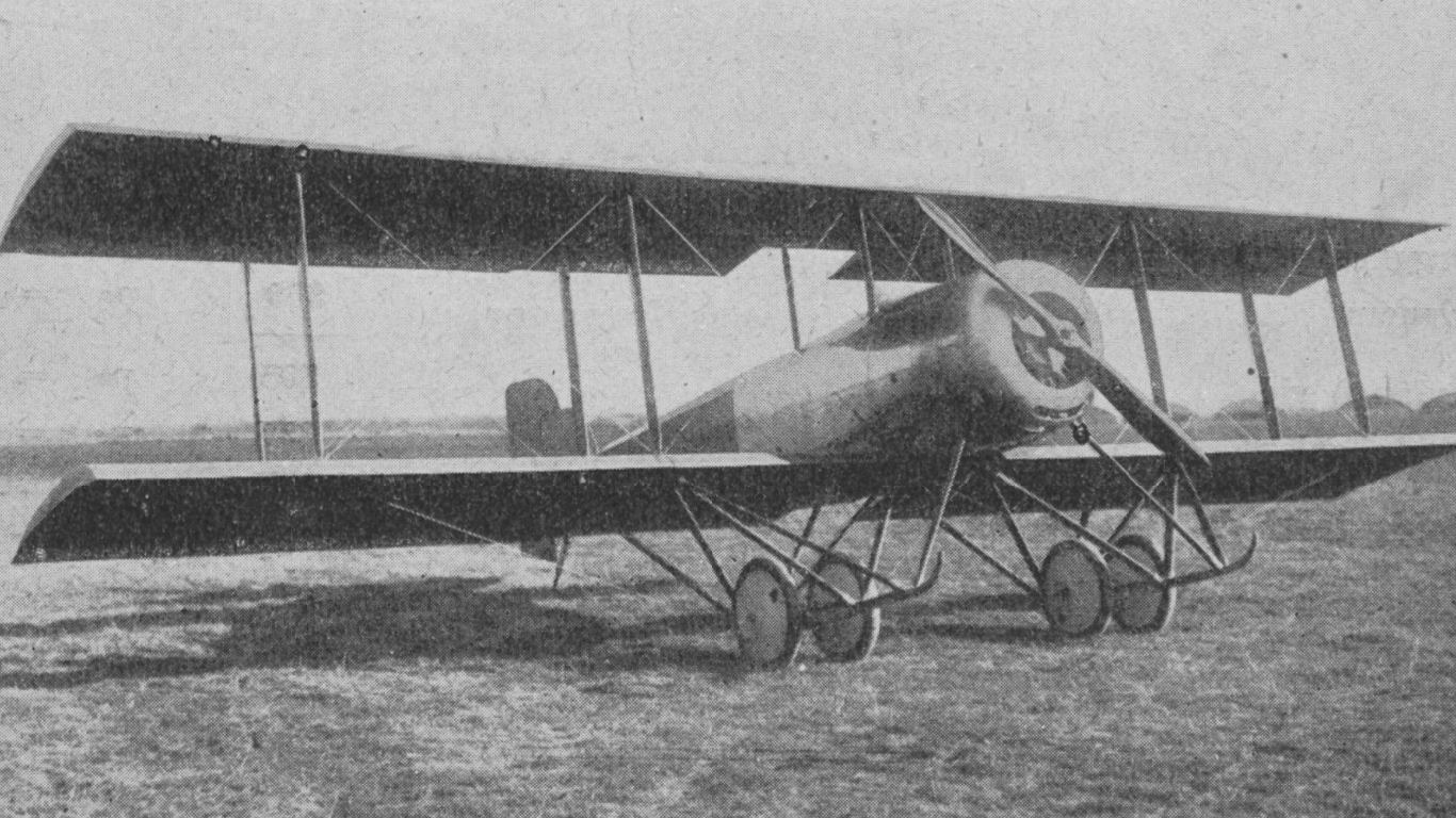 Hanriot HD.14 photo from L'Année aéronautique 1921-1922